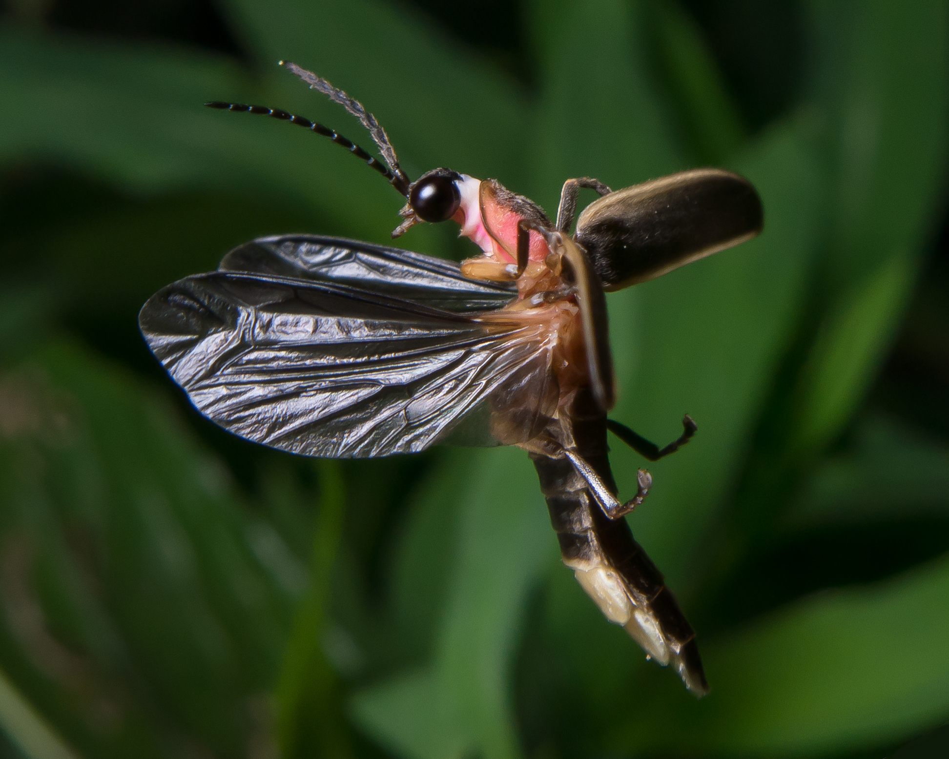 Photinus Pyralis, common eastern U.S.A. firefly